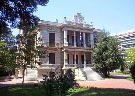 View from outside, Villa Mordoch, Thessaloniki, Central Macedonia, Greece